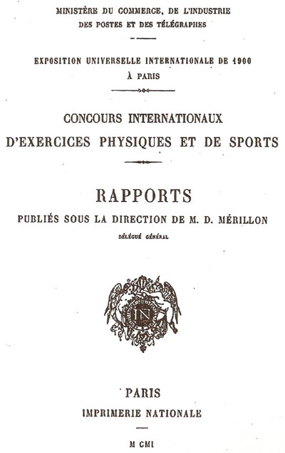 Title of the Official Report about the Concours Internationaux d’Exercices Physiques et de Sports 1900 à Paris print, reproduction, no restrictions on use